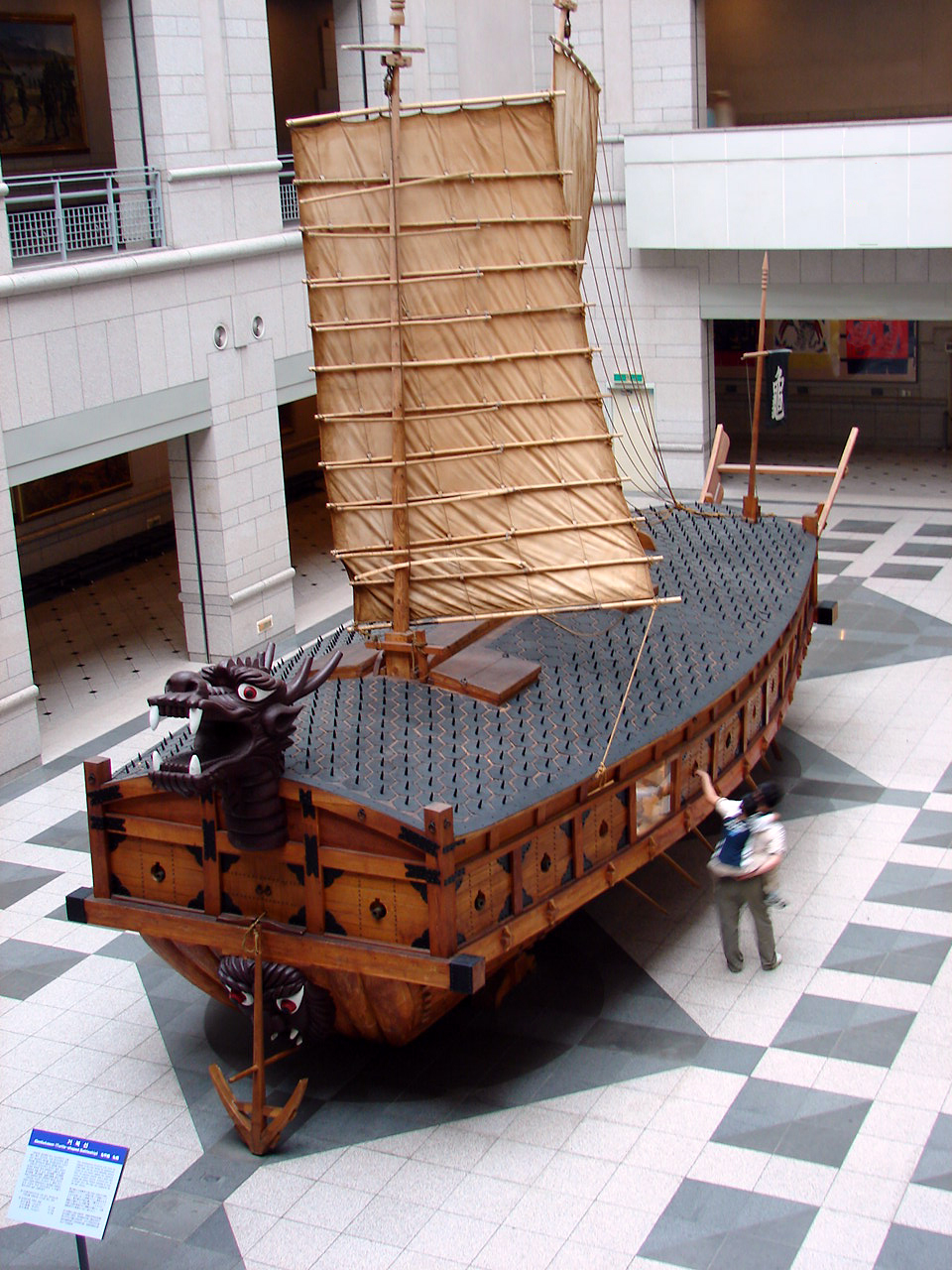 Turtle ship in the War Memorial of Korea, opened in 1994, is largely a museum-like War Memorial in Seoul South Korea. The War Memorial has six display rooms displaying over 13,000 documents and war memorabilia items, and an outdoor exhibition center displaying military equipment, illustrating the turbulent times of Korea throughout its history.